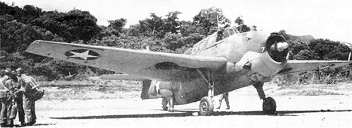 A TBF Avenger operating out of Henderson Field, Guadalcanal, probably around August or September, 1942.